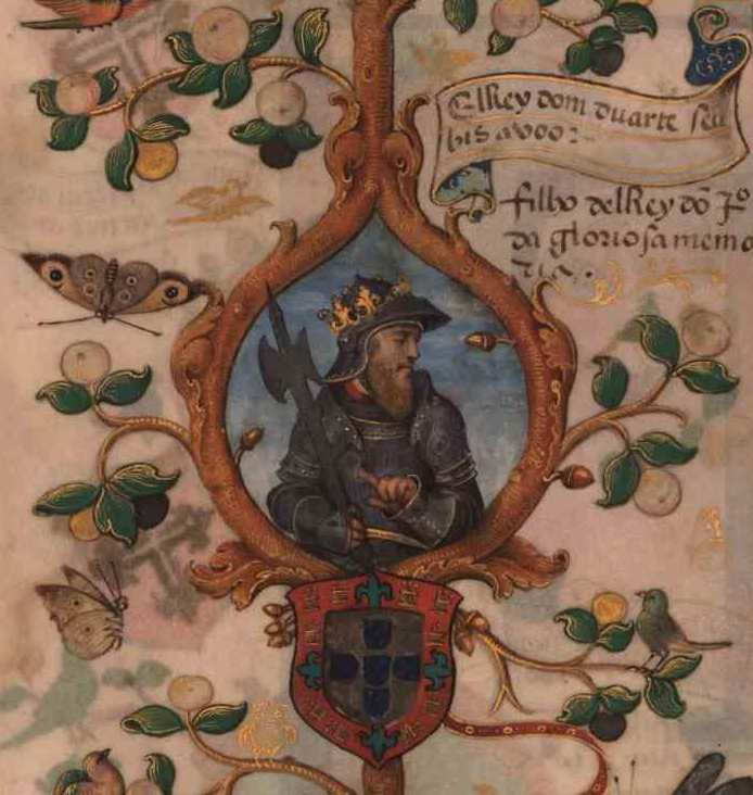 King Edward I of Portugal (1391-1438) in a 1534 miniature.